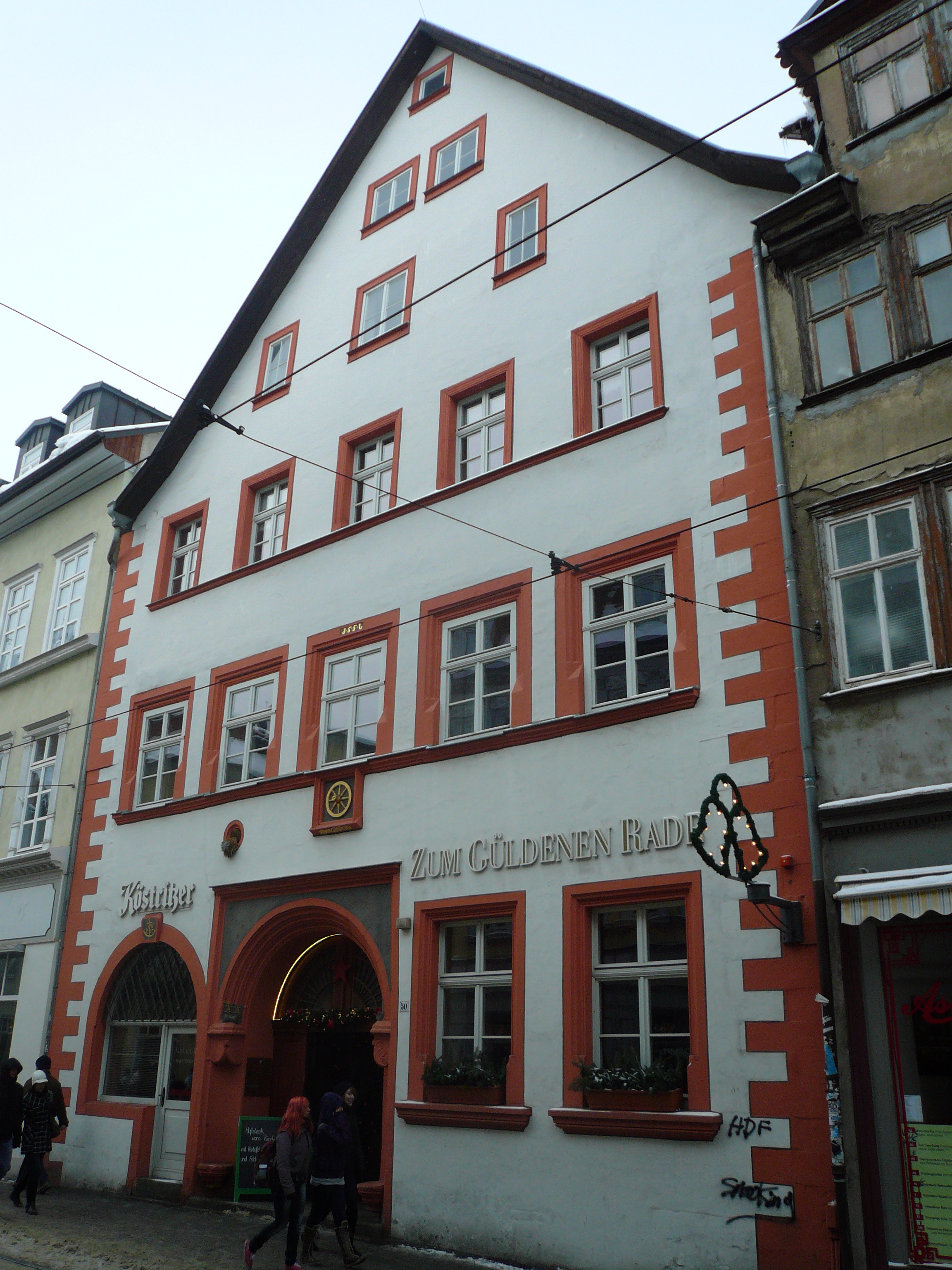 The house "Zum güldenen Rade" - Marktstraße, Erfurt, Thuringia, Germany